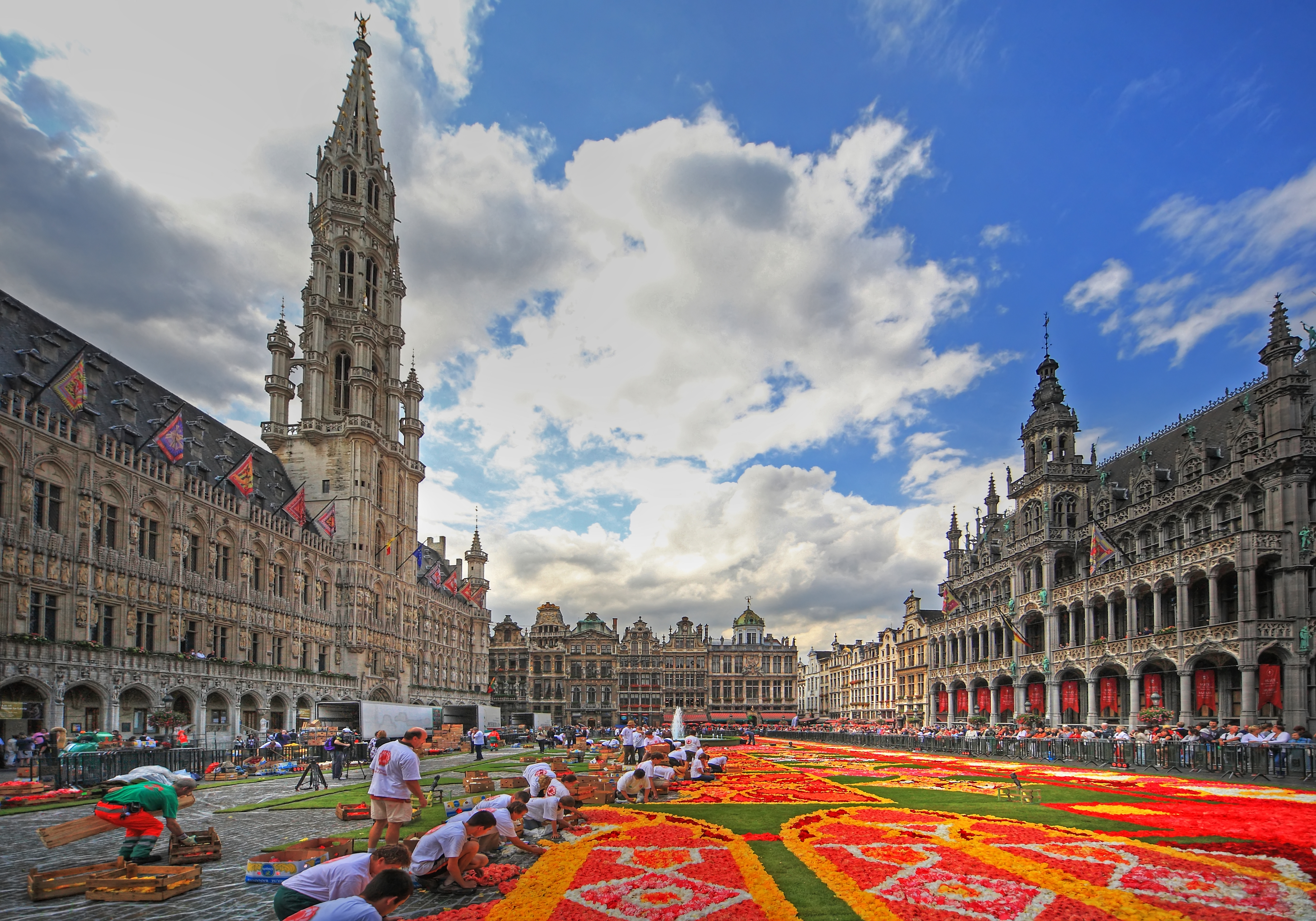 Grand Place